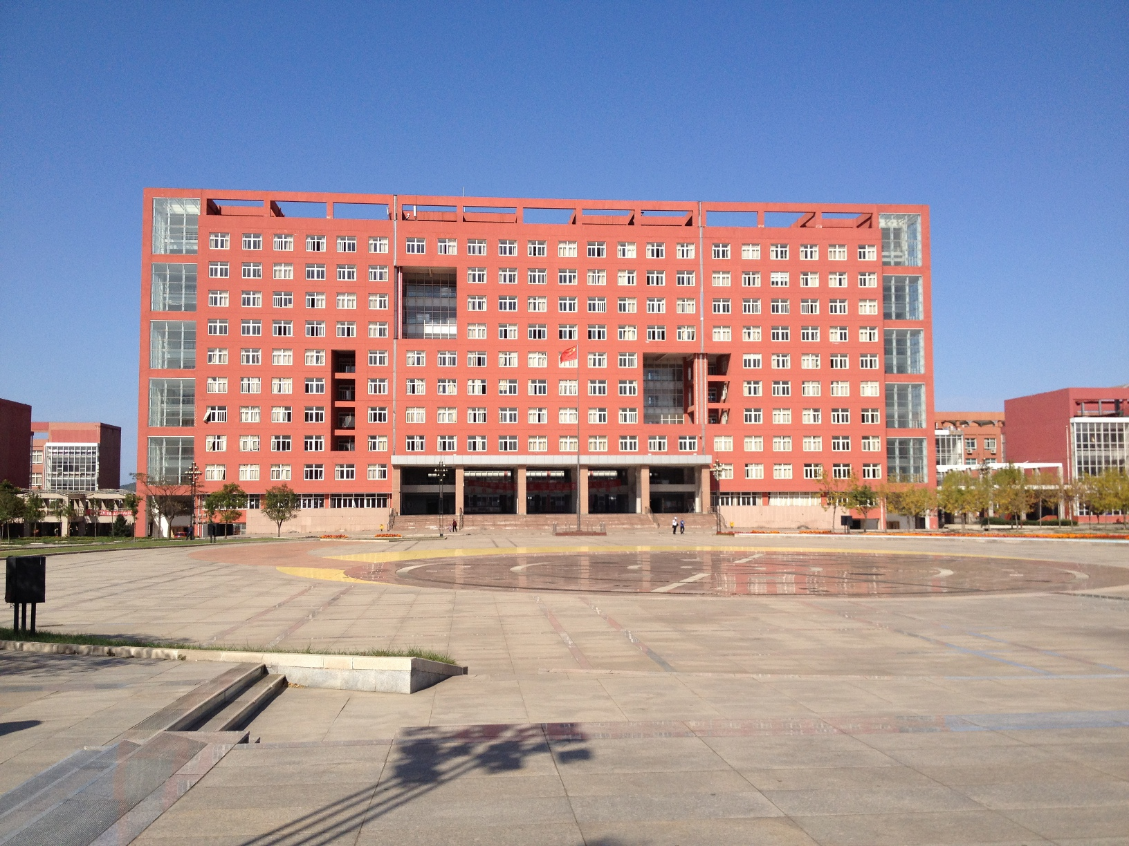 Qufu Normal University, Rizhao Campus